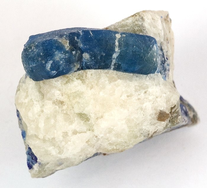 Afghanite, Lazurite Locality: Sar-e-Sang District, Koksha Valley (Kokscha; Kokcha), Badakhshan (Badakshan; Badahsan) Province, Afghanistan (Locality at ) Size: 3.8 x 2.8 x 1.9 cm. A lustrous, sharp, hexagonal, 2.3 cm, curved afghanite crystal perched atop marble matrix, which itself is on pyrite-speckled lazurite. The afghanite has classic azure-blue color. One end is nicely terminated, while the other is contacted. Sar-e-Sang is the Type Locality for both afghanite and lazurite. It is uncommon to see both species on the same specimen.